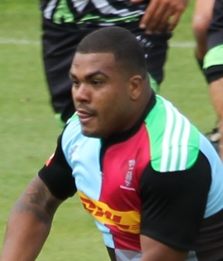 Kyle Sinckler playing for Harlequins in 2014.